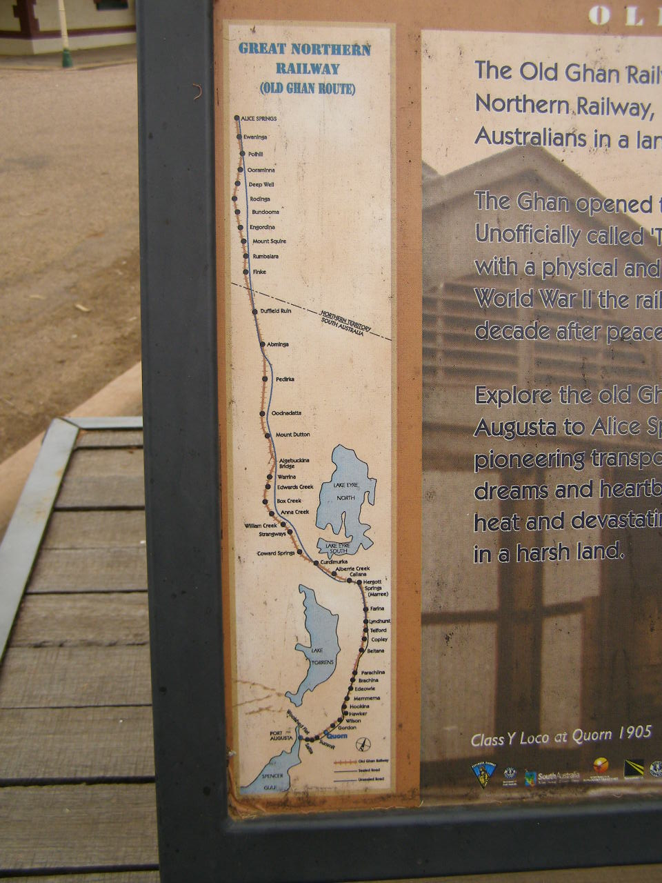 Sign showing the route of the Old Ghan railway at Quorn Railway Station, South Australia